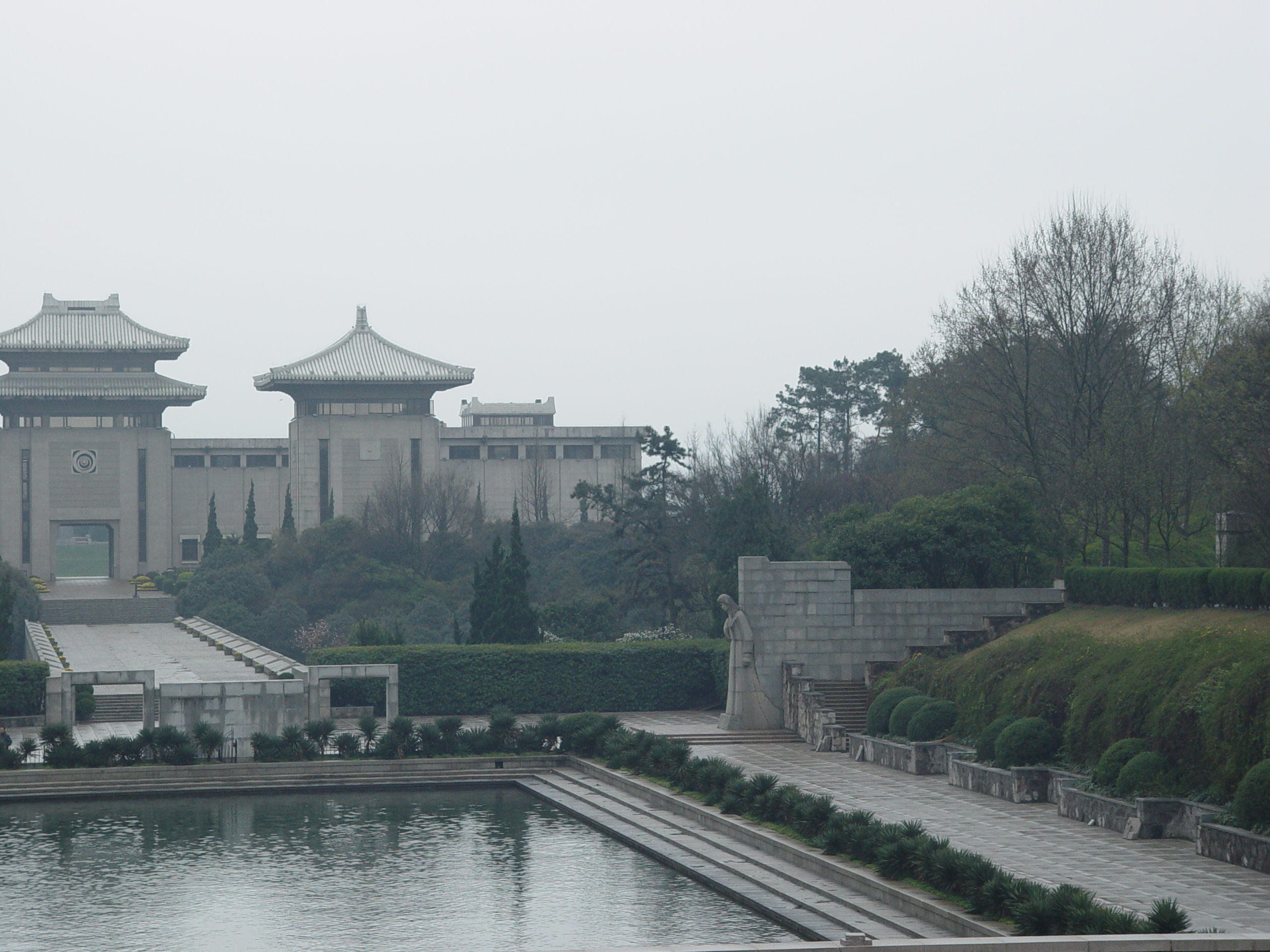 Nanjing Martyrs' Cemetery, Yuhuatai